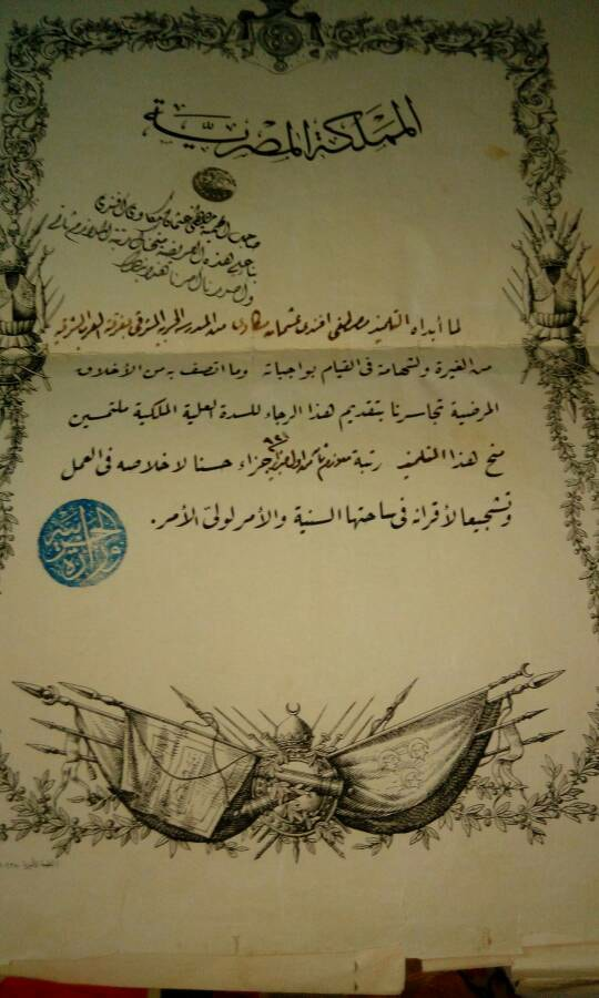 شهادة تعيين مصطفى برتبة ملازم تاني بالمملكة المصرية